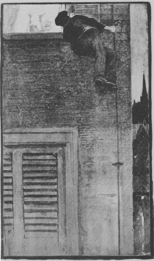 McCormick - The Murders in the Rue Morgue from Arthur Gordon Pym, The Gold Bug, and The Murders of [sic] the Rue Morgue (London: Downey, 1899), facing p. 214.